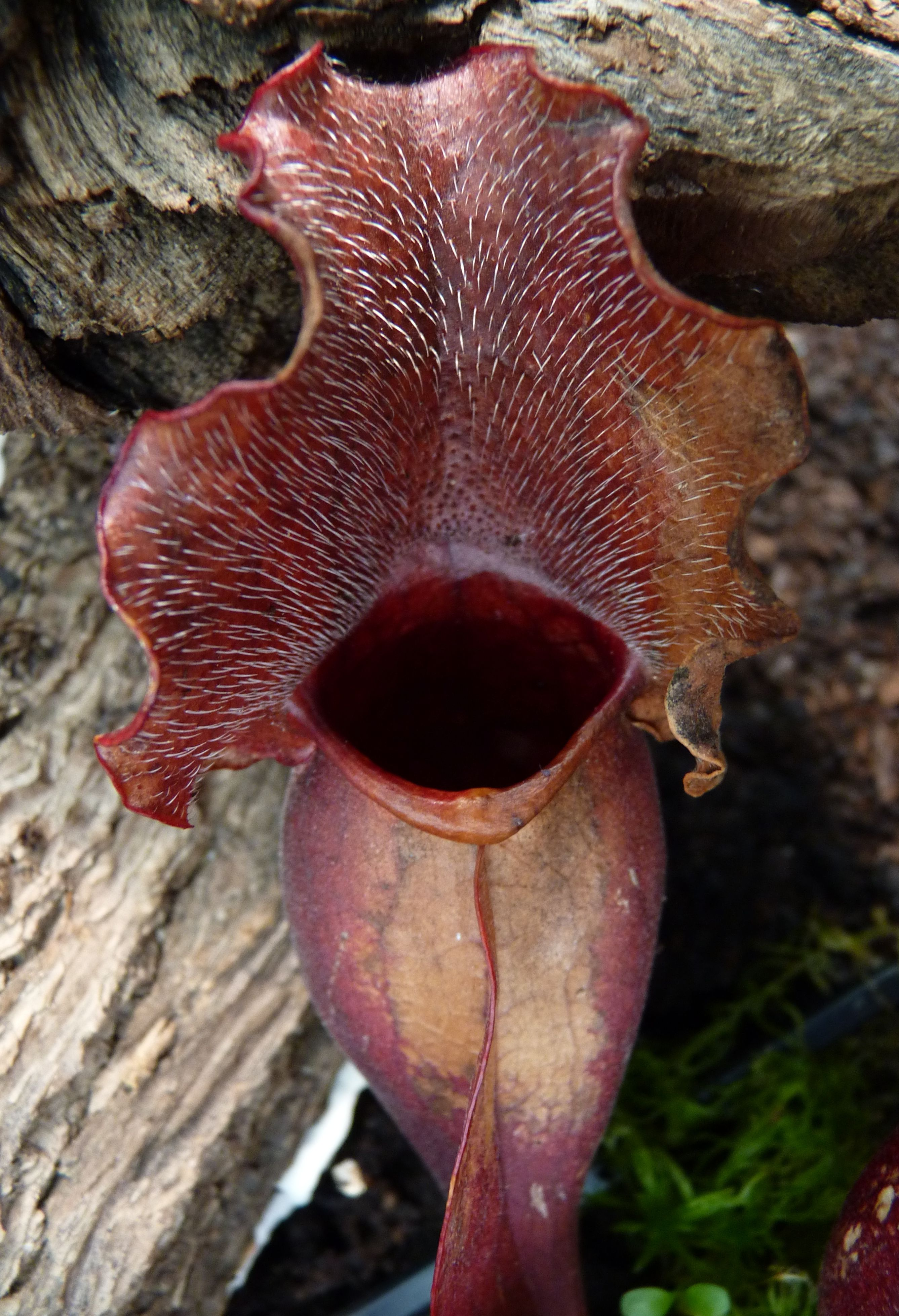 Sarracenia purpurea. Carnivorous plants exhibition in Botanical garden Brno (2011), Czech Republic.